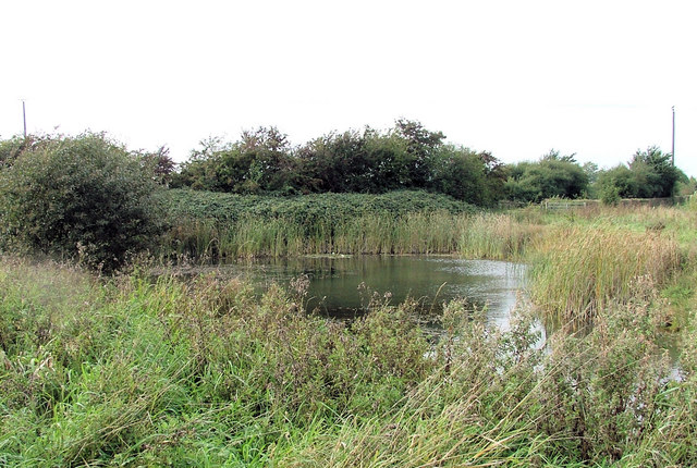 Pond at Aike, East Riding of Yorkshire, England.This pond is at the point where a footbridge (Aike Bridge) formerly crossed a small drain. The bridge no longer exists.